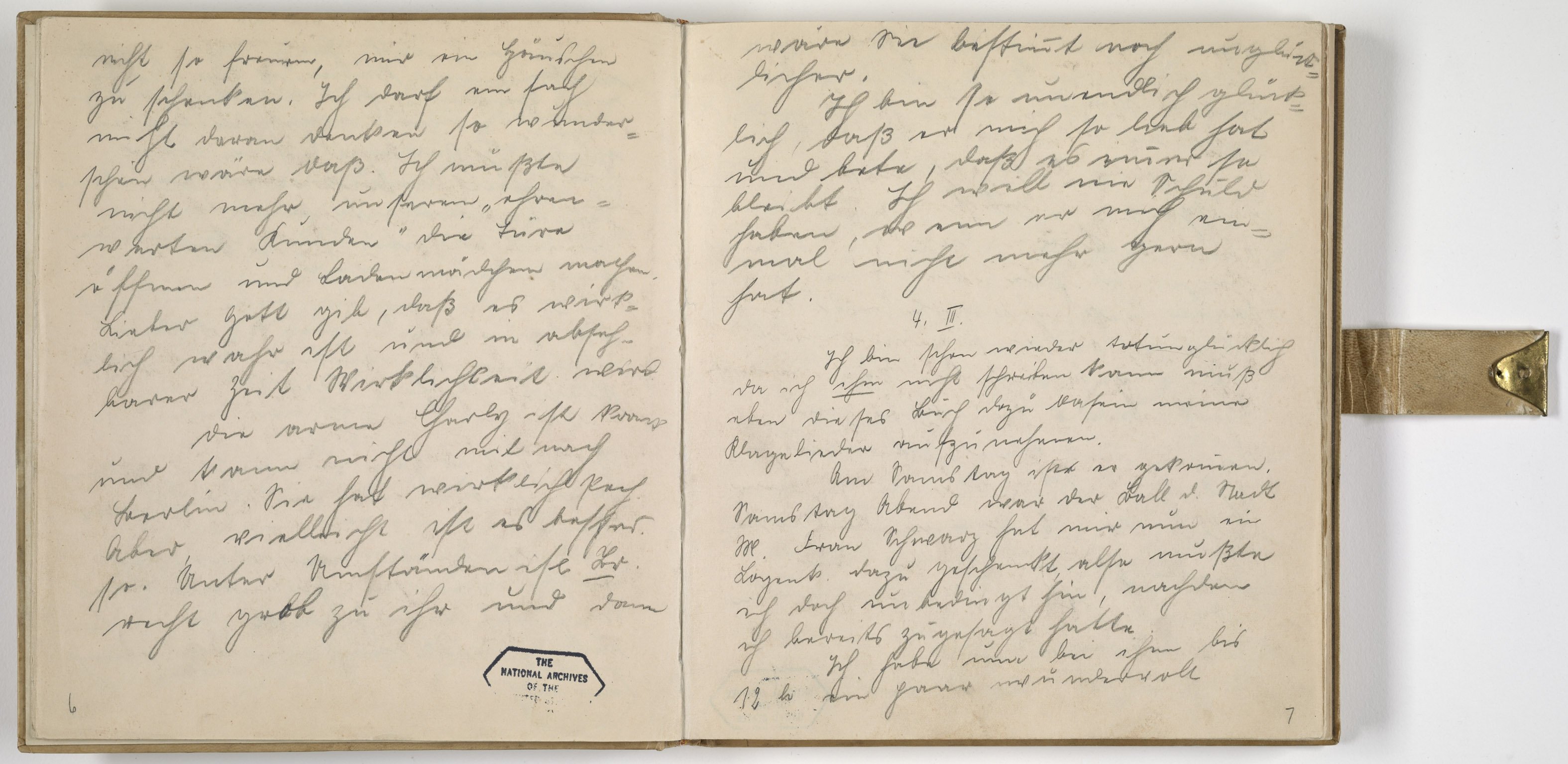 Diary of Eva Braun page 4 hms id number hd1-99101676